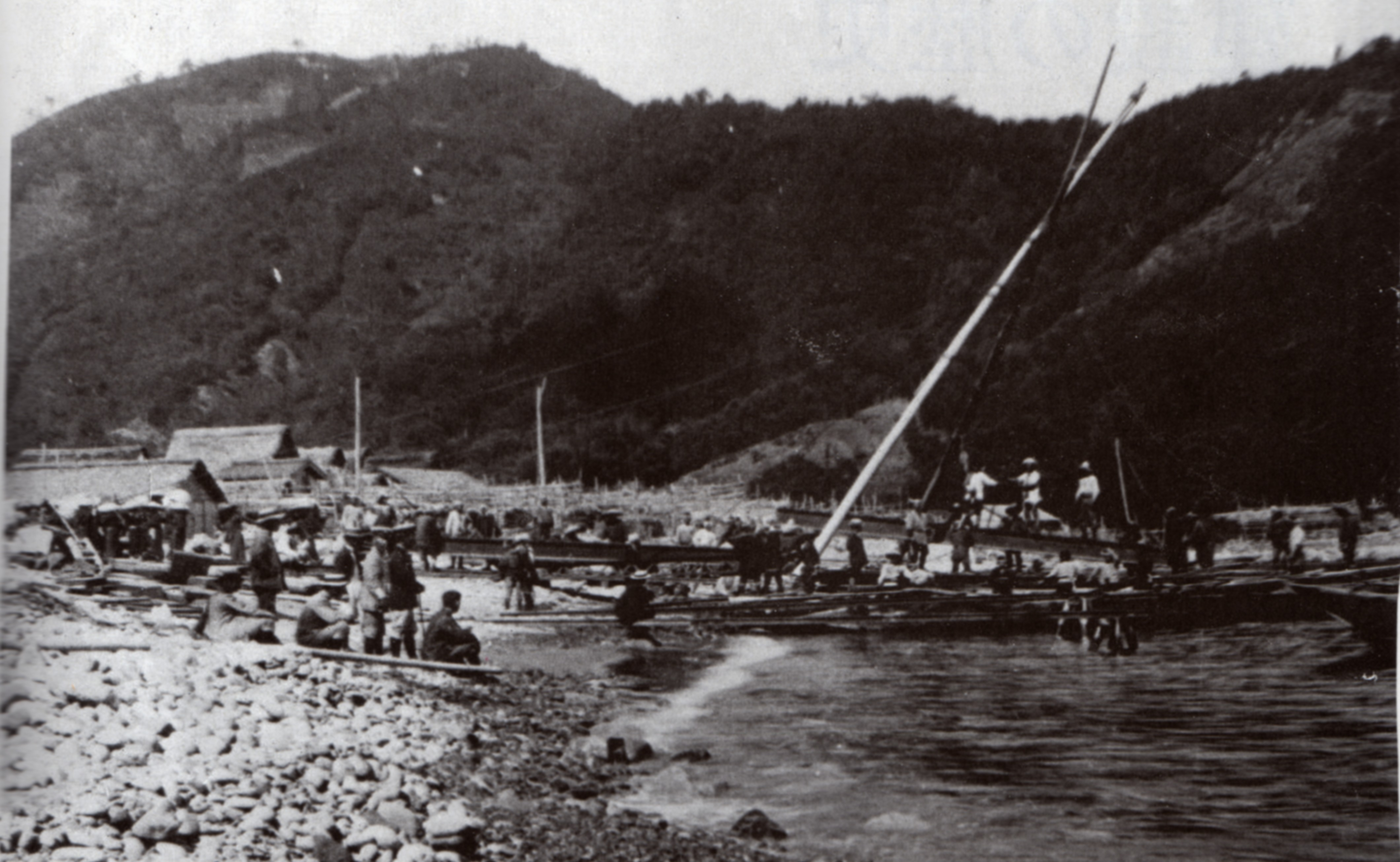 Disembarking work of material for trestle pier of Amarube viaduct.